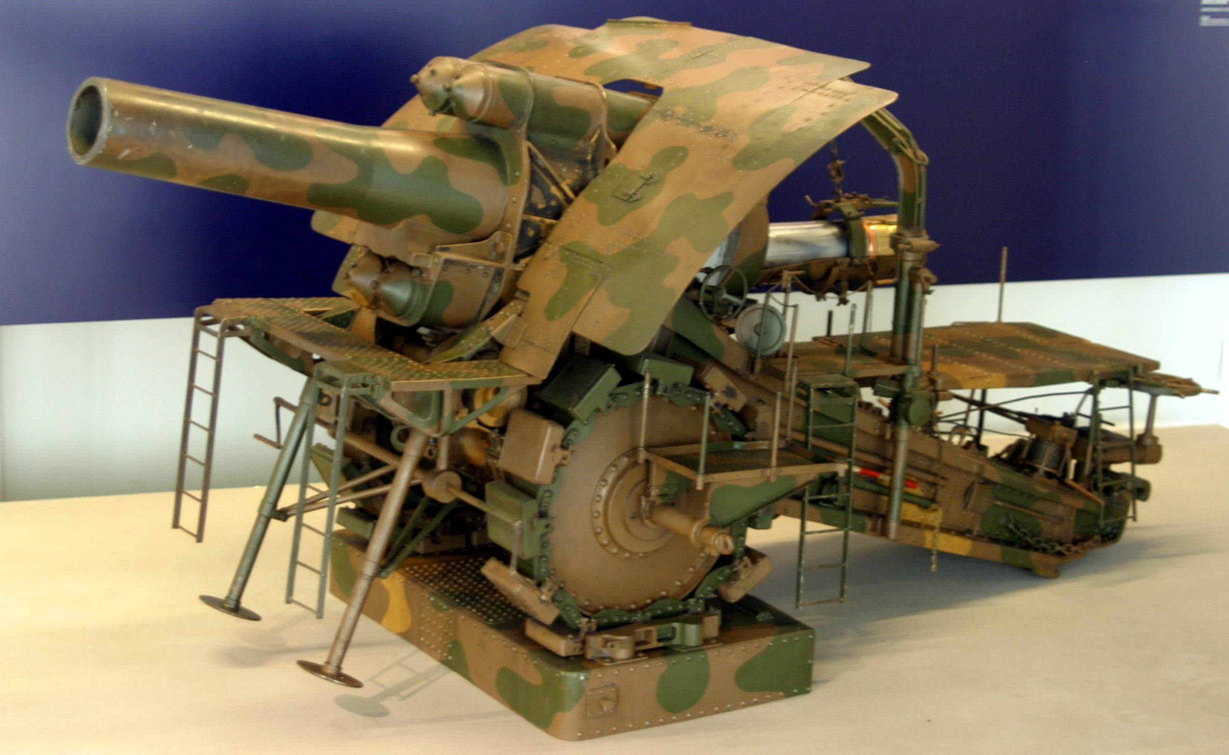 Photograph of model of the road-mobile "M-Gerät" version of the German 42-cm Howitzer of World War I, commonly nicknamed "Big Bertha". The model can be seen at the Musée de l'Armée, Paris.